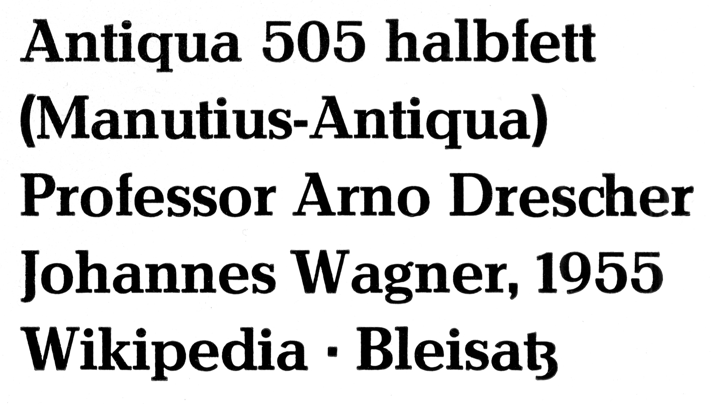 Design: Arno Drescher. Antiqua 505 medium (Manutius-Antiqua), Published by Johannes Wagner, Ingoldstadt 1955. Manutius was first published by Ludwig Wagner KG, Leipzig 1954.